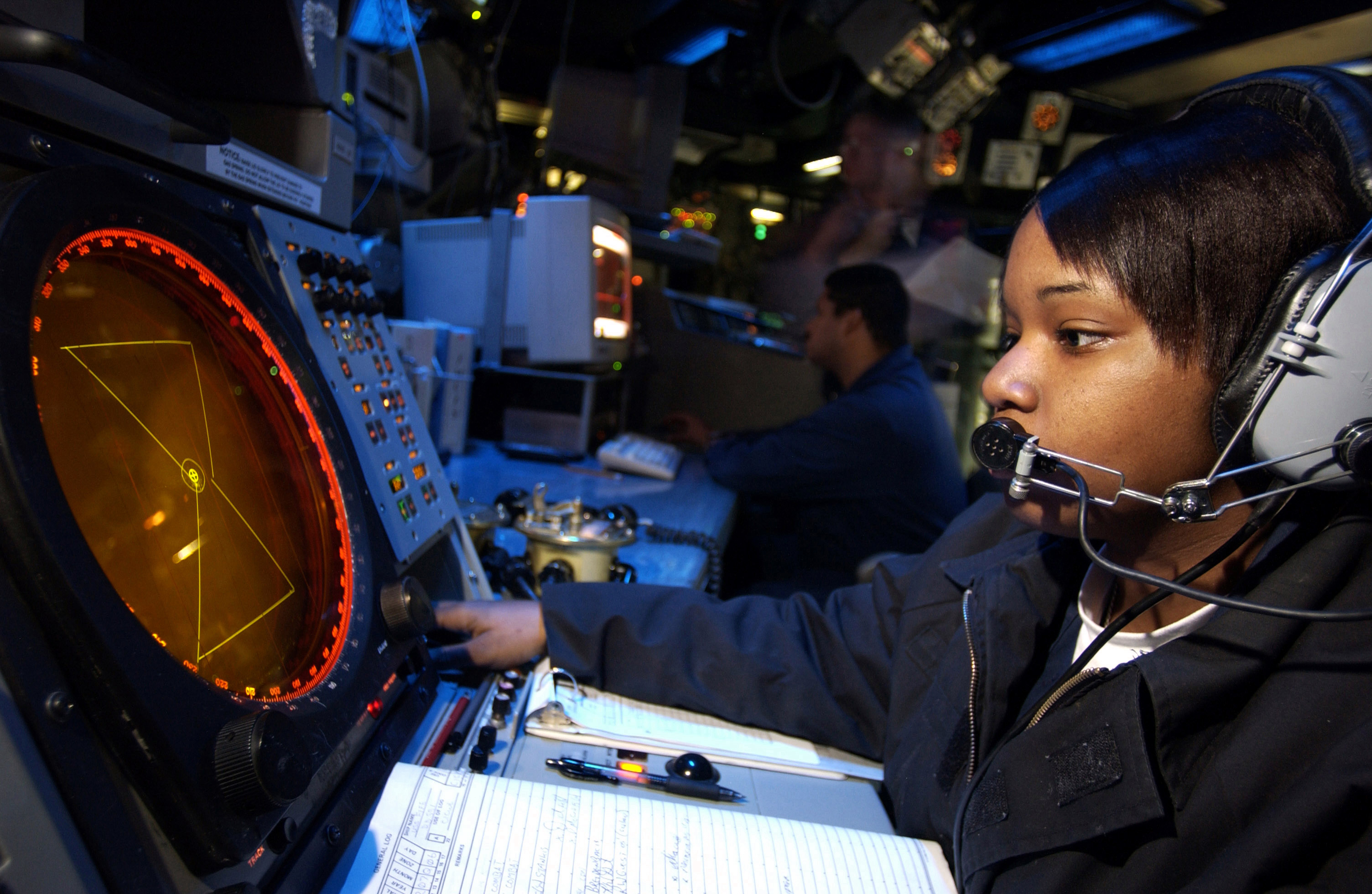 020706-N-6067M-001 Southeastern Pacific Ocean (Jul. 5, 2002) -- Operations Specialist Seaman Ja'Ida Davis mans a radar console aboard the guided-missile destroyer USS Fife (DDG 991) during the Pacific Phase of UNITAS. UNITAS (Latin for “unity”) is an exercise which involves warships from six countries participating in ten days of intense wargames designed to build multinational coalitions while promoting hemispheric defense and mutual cooperation. U.S. Navy photo by Photographer’s Mate 1st Class Shane T. McCoy. (RELEASED)